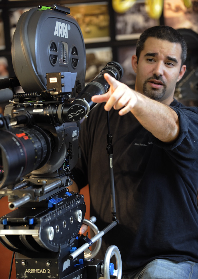 Alex Ferrari on a film shoot 2008.